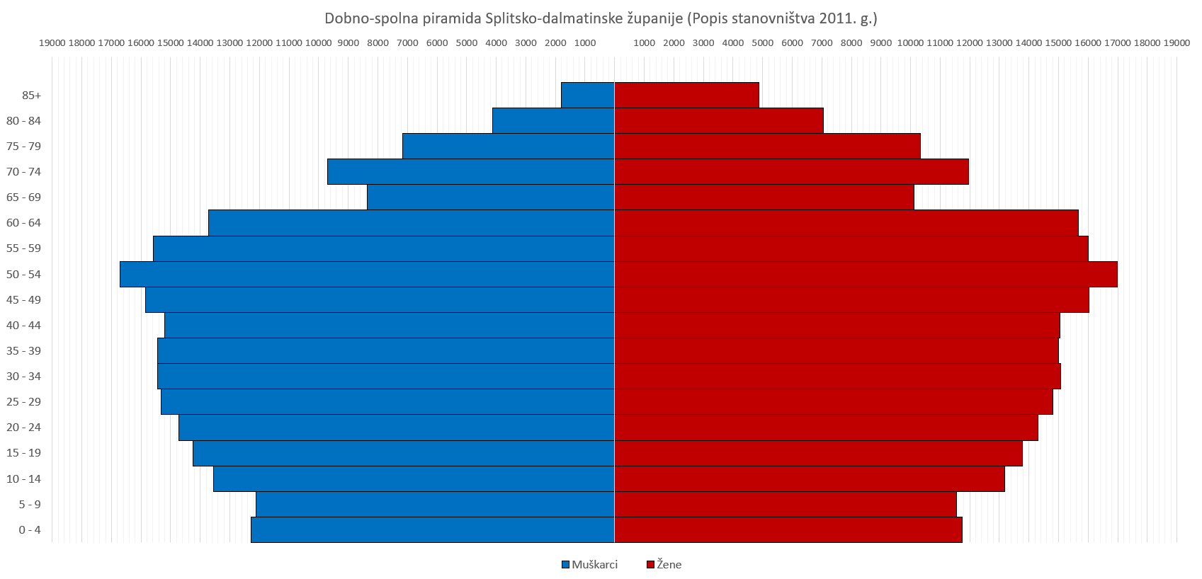 Population pyramid of Split-Dalmatia County. Version in Croatian. Data from 2011 Census; available at